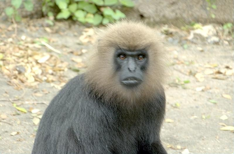 The expression on his face puzzles me This is the Nilgiri Langur. A rare and endangered species of monkey that is endemic to the Western Ghats. The best place to see it is the Anamalais, The Indira Gandhi Wildlife Sanctuary & National Park, Tamil Nadu. A leaf-eating monkey, extremely shy with a tail almost three feet in length. Being poached for meat and apparent medicinal properties. Has made a comeback at the Anamalais after protection. Very vocal in the mornings and evenings.